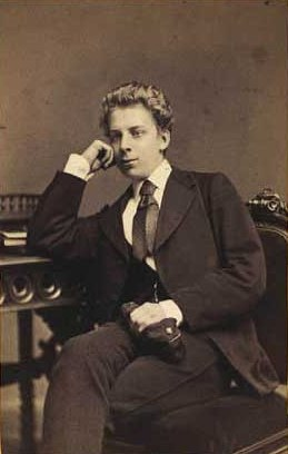 Danish jeweler Carl Michelsen (1853-1921)